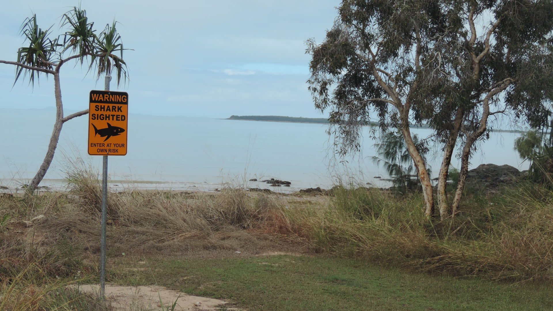 Sign about shark sighting on the beach at Clairview, Queensland, 2016